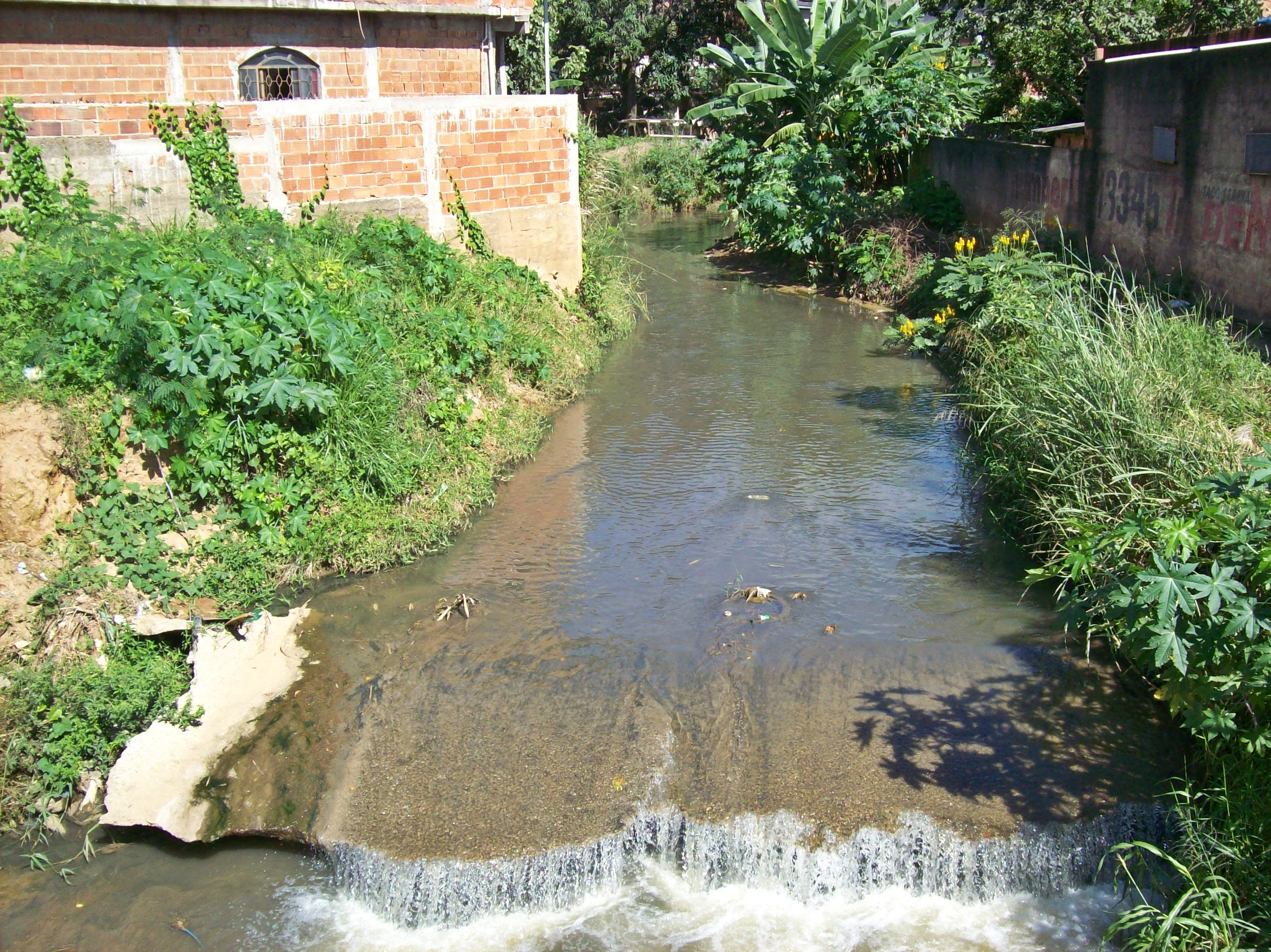 Caladão stream in the Melo Viana neighborhood, in Coronel Fabriciano, Minas Gerais, Brazil.